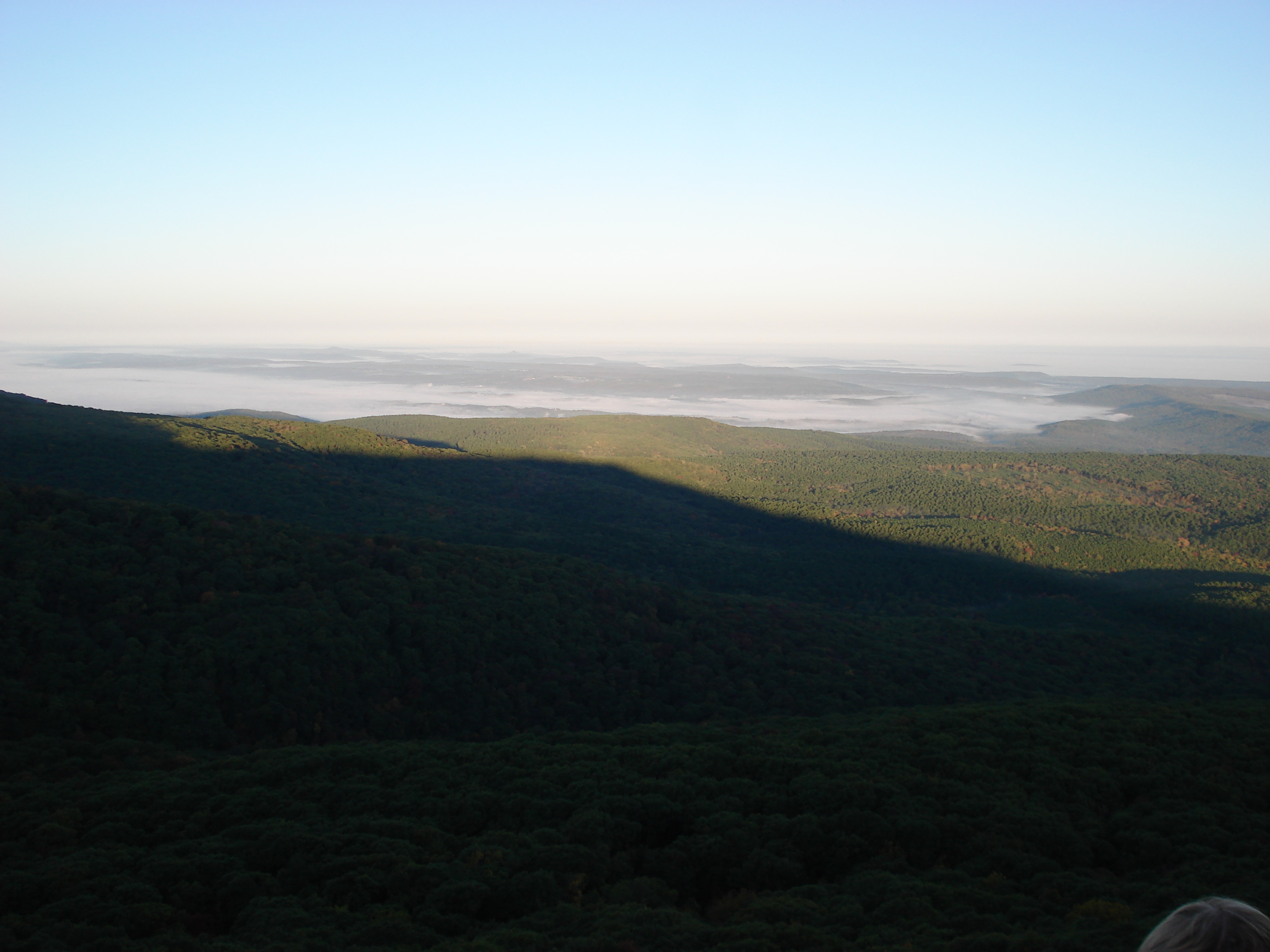 View from the summit of Mount Magazine looking northwest, Arkansas, USA.